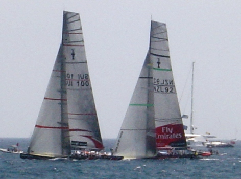 Alingi (left) and Emirates Team New Zealand (right) in race one of the 32nd America's Cup. Alingi won the first race by 35 seconds. Cropped by myself from original verson.